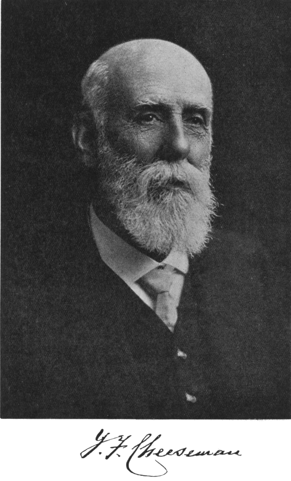 Photo of New Zealand's botanist Thomas Frederick Cheeseman (1846 – 1923) born in the United Kingdom.